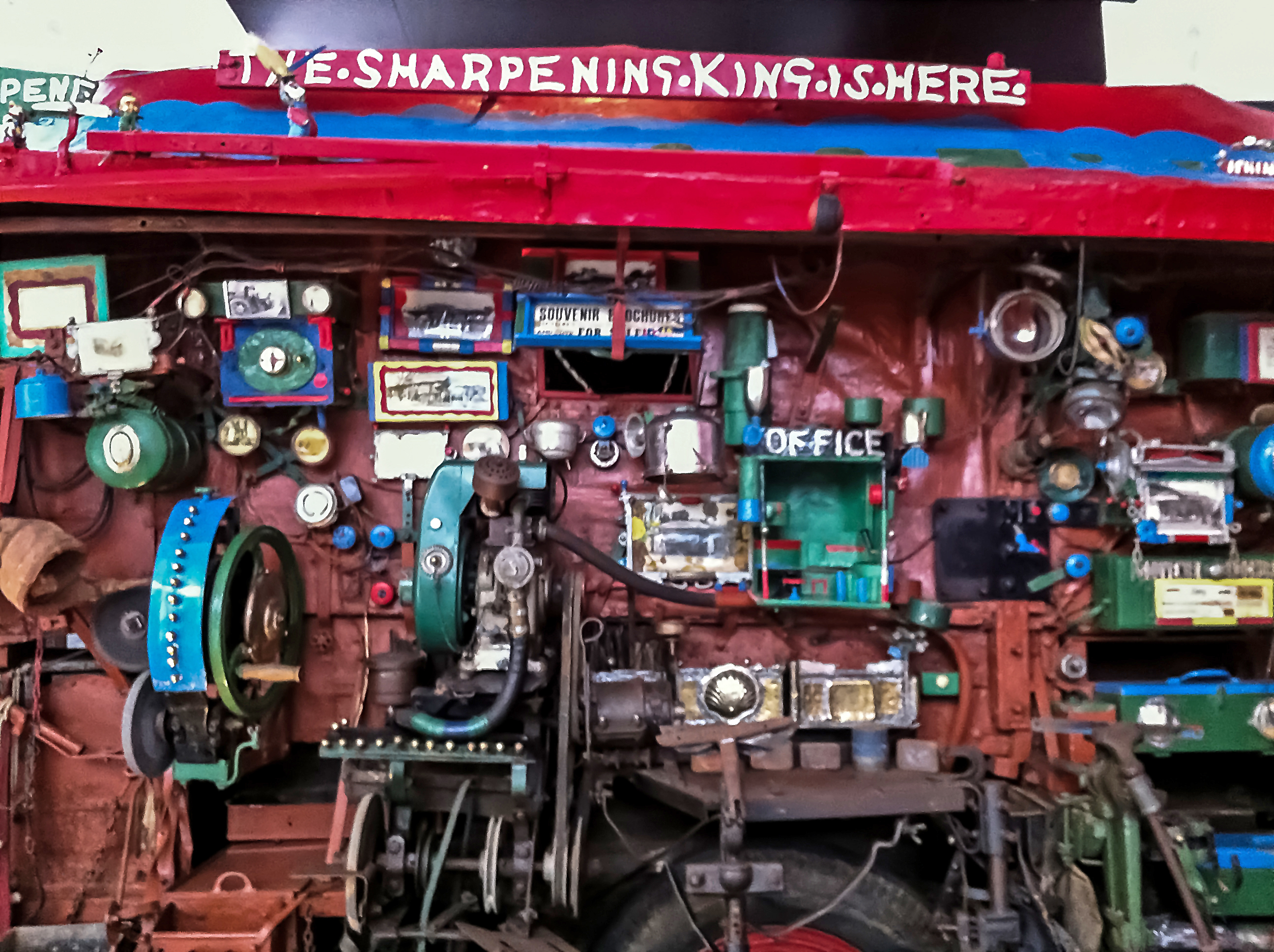 Part of exhibit showing truck which used to go around parts of Australia sharpening saws, knives and so much more. At National Musem.